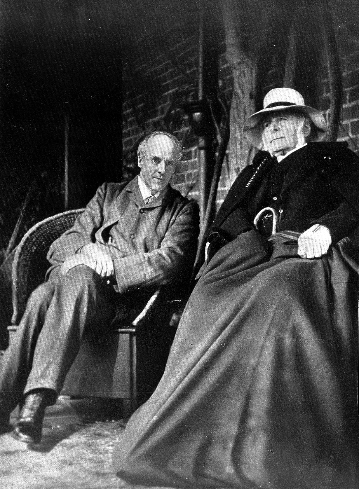 Karl Pearson, The life, letters and labours of Francis Galton, volume IIIA, Correlation, personal identification and eugenics. Cambridge: University Press, 1930. Plate XXXVI - Francis Galton with his biographer, facing page 353. General Collections Keywords: francis galton; gc; karl pearson; life, letters and labours